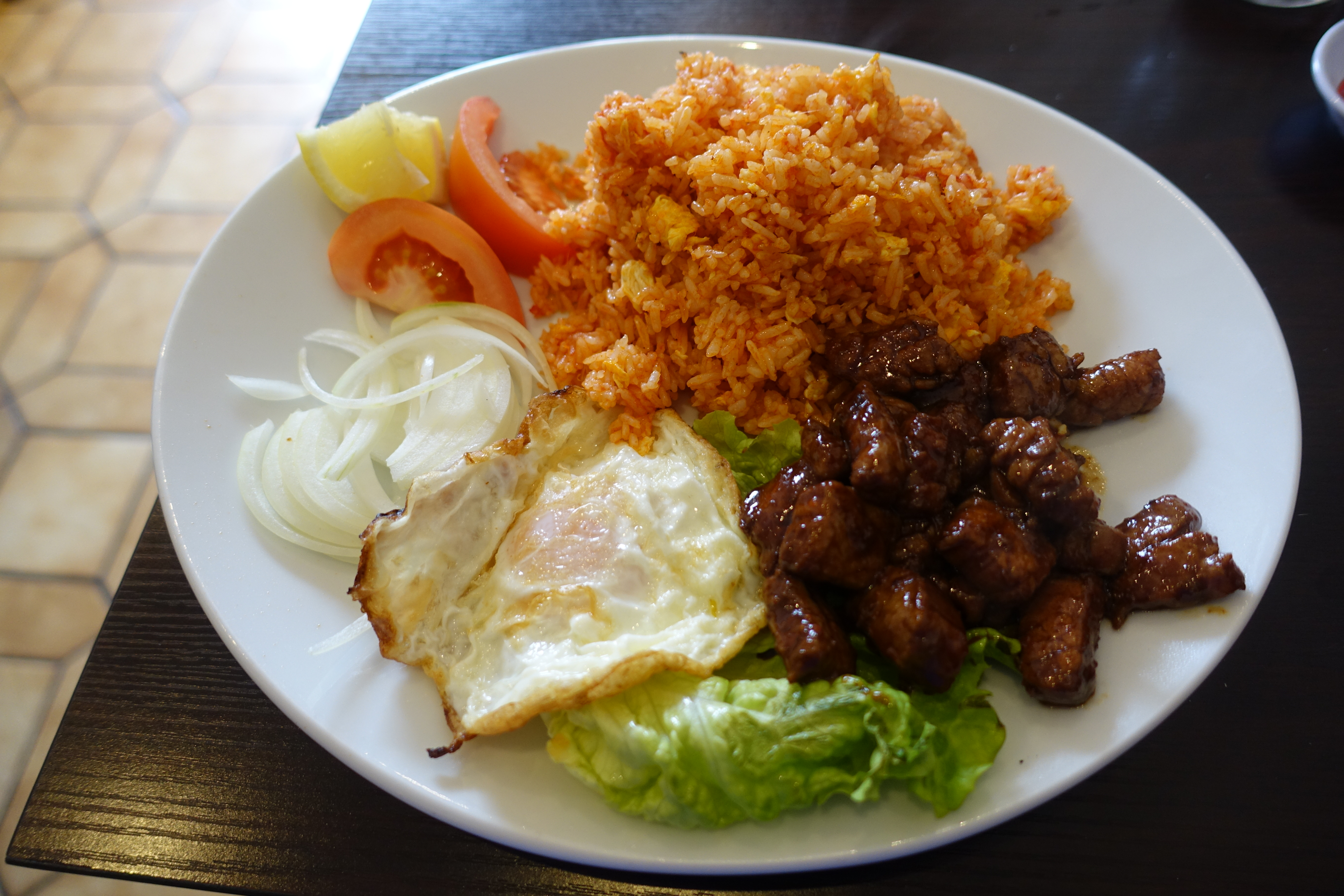 Loc Lac Beef @ Rice & Noodle @ Montparnasse @ Paris